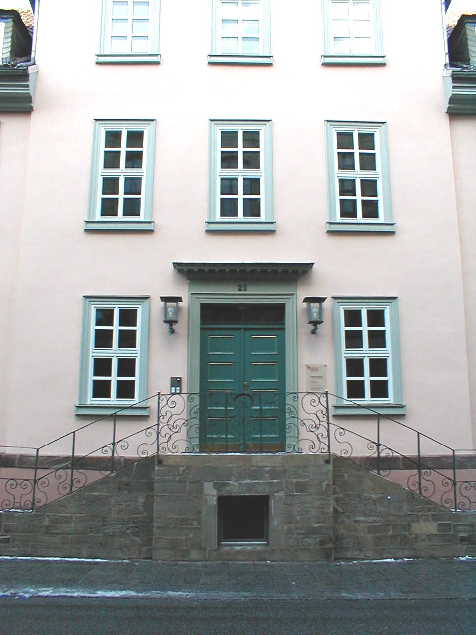 entrance of de.Michaelishaus, formerly belonging to Göttingen university